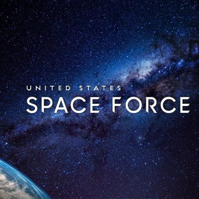 United States Space Force logo used prior to the unveiling of the USSF seal on January 24, 2020, and used by USSF DoD social media